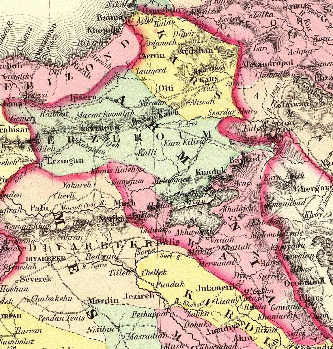 Turkey In Asia And The Caucasian Provinces Of Russia. Published By J.H. Colton & Co. No. 172 William St. New York. Entered ... 1855 by J.H. Colton & Co. ... New York. No. 25